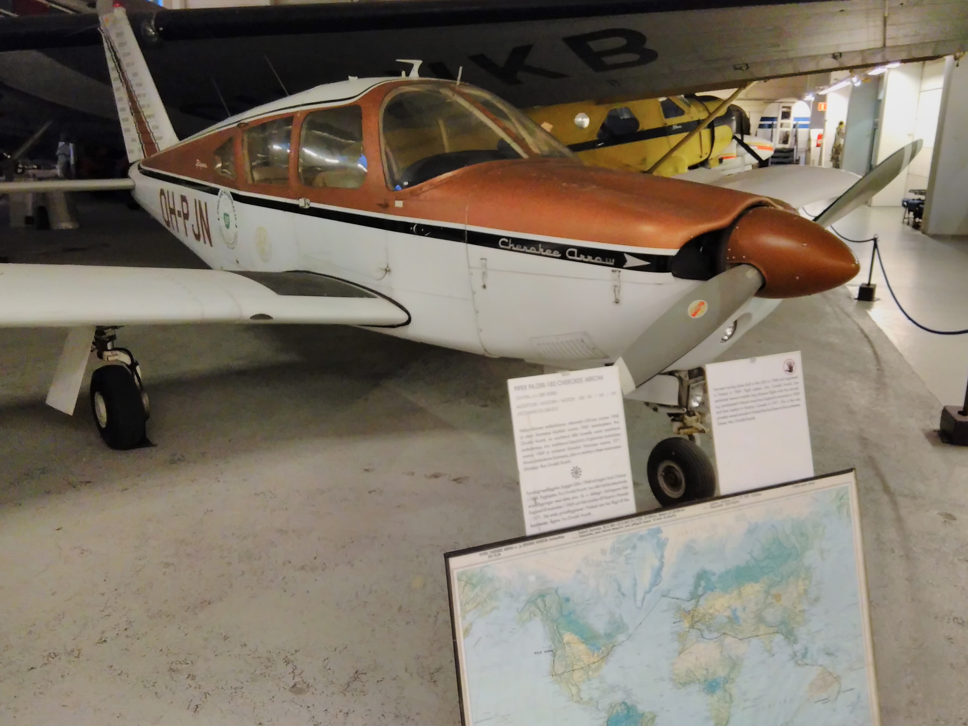 The Piper PA-28R-180 Cherokee Arrow OH-PJN of Orvokki Kuortti in the Finnish Aviation Museum, Vantaa.